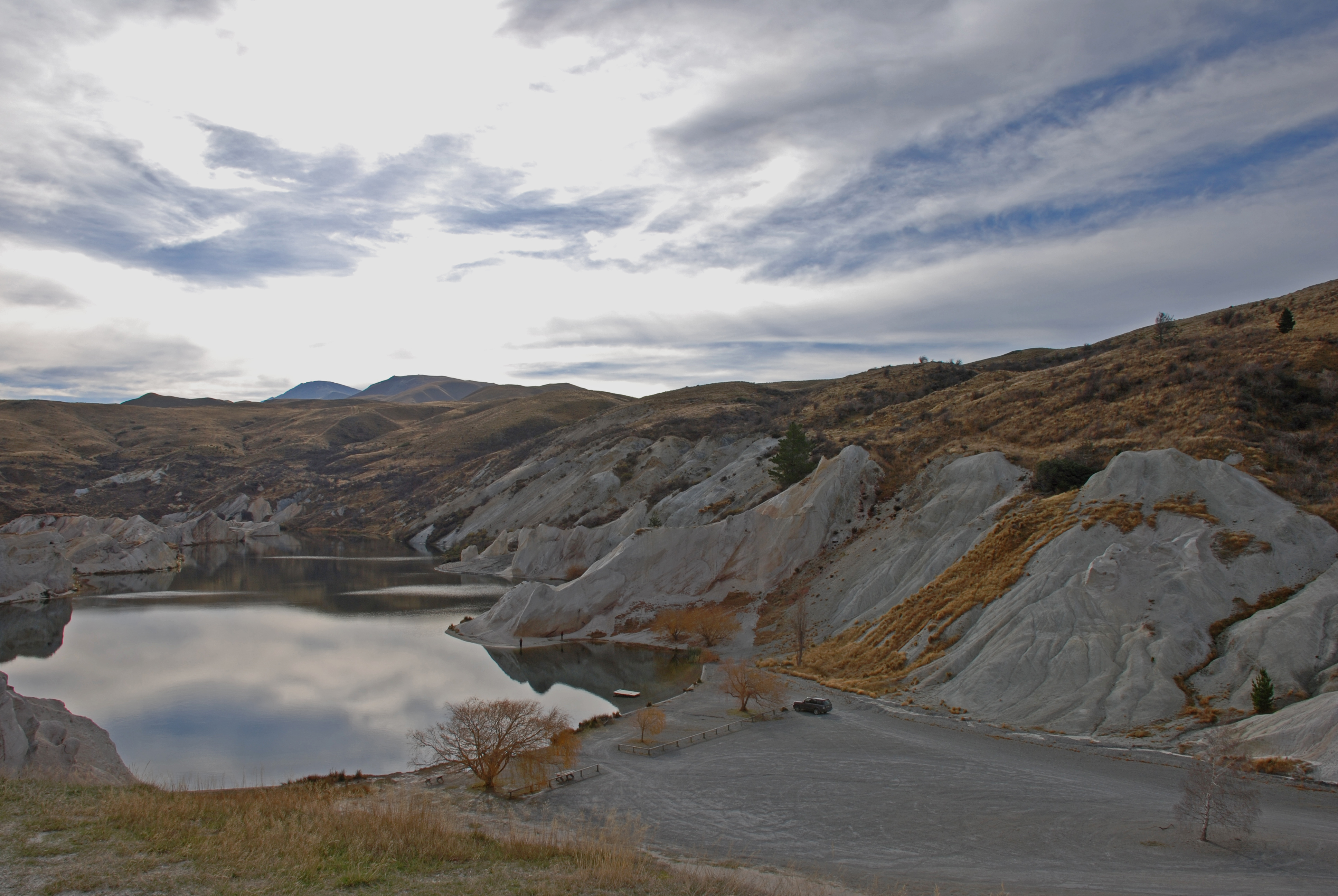 Old gold workings, St. Bathan's, Otago, New Zealand, May 2007